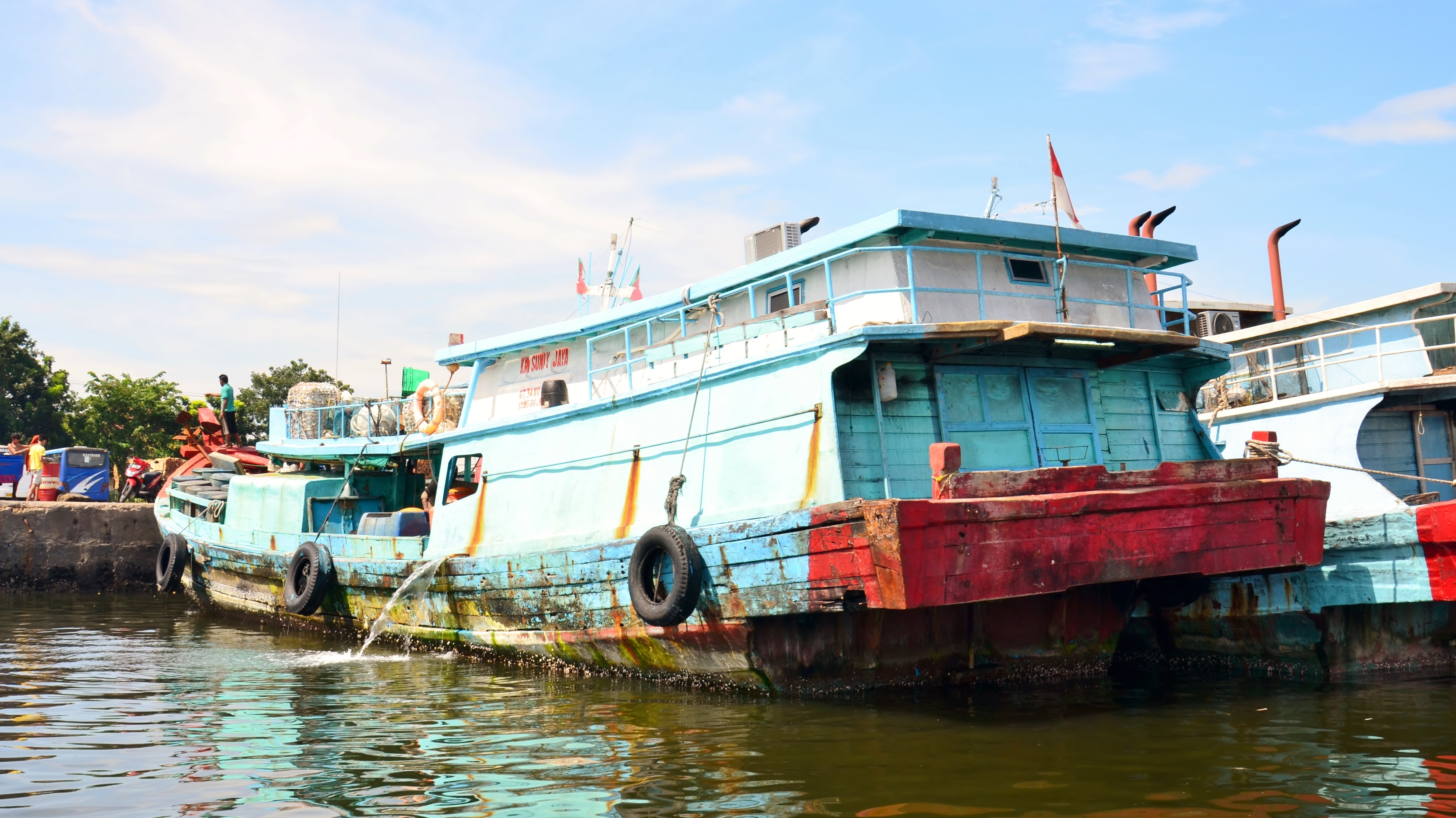 View of fishing boats inside the Port of Probolinggo, in East Java, Indonesia. The port is also known locally as Pelabuhan Tanjung Tembaga or "Port of Tanjung Tembaga".